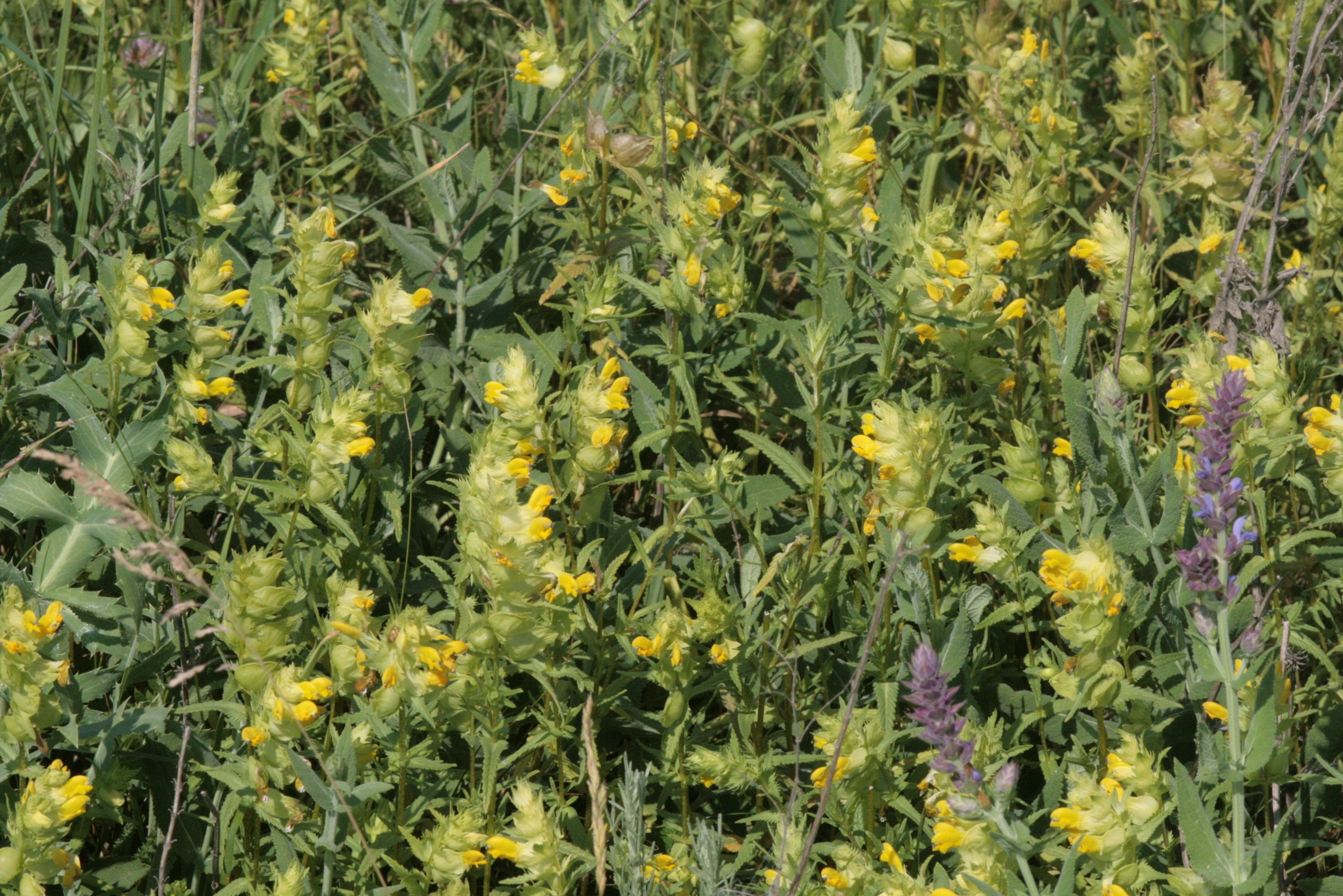 Rhinanthus serotinus